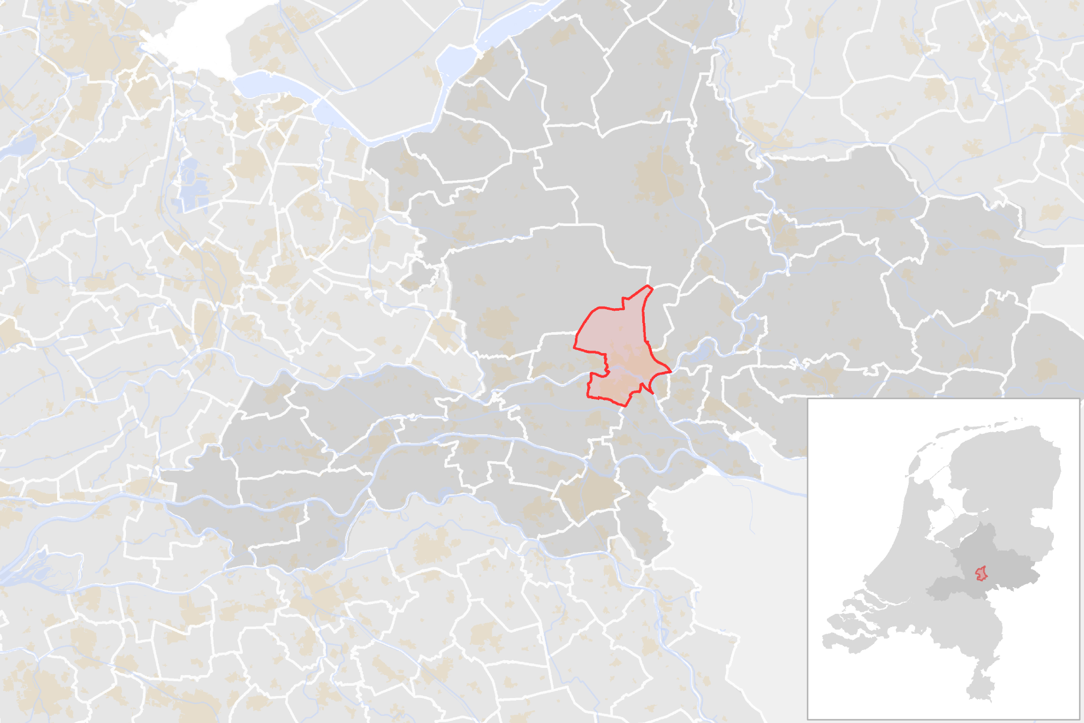 Locator map showing municipality boundary of one of the 390 Dutch municipalities (as of 2016)